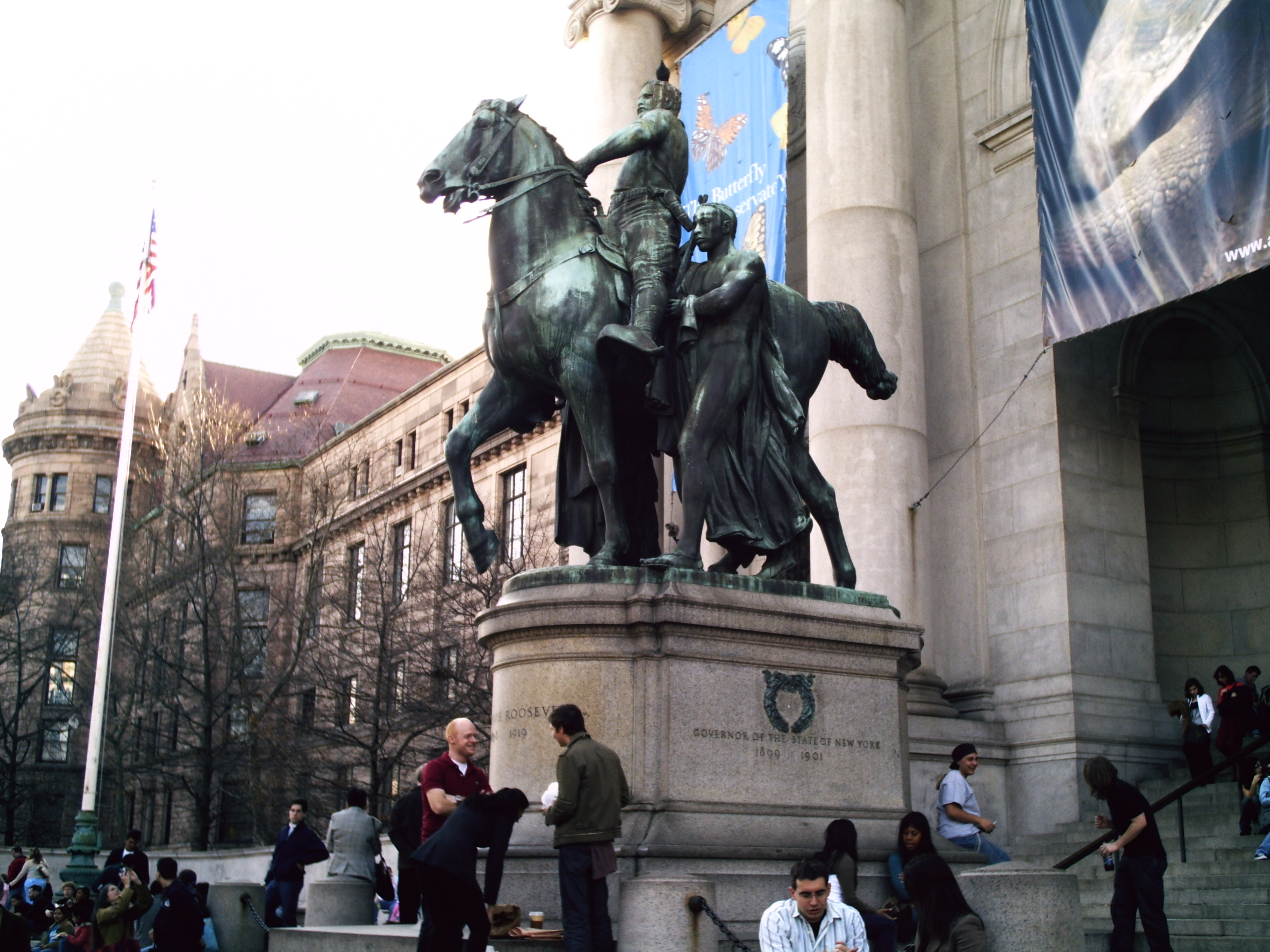 The Statue of Theodore Roosevelt before the American Museum of Natural History, sculpted by James Earle Fraser in 1940. Theodore Roosevelt is flanked by the figures of two guides, one Native American and one African, meant to symoblize the continents of America and Africa.